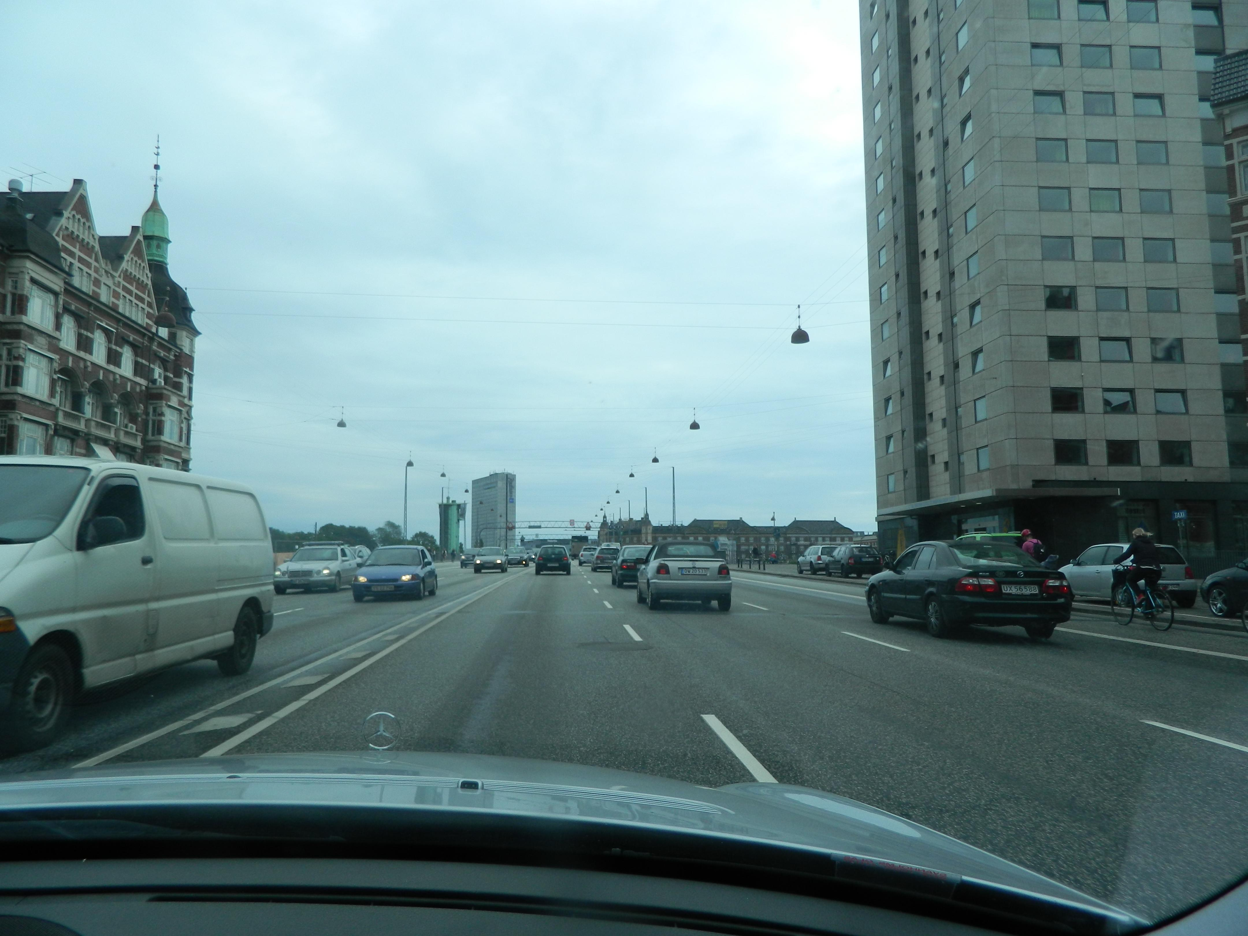 One of the two central bridges across Copenhagen's harbour, Langebro. In direction towards Amager.